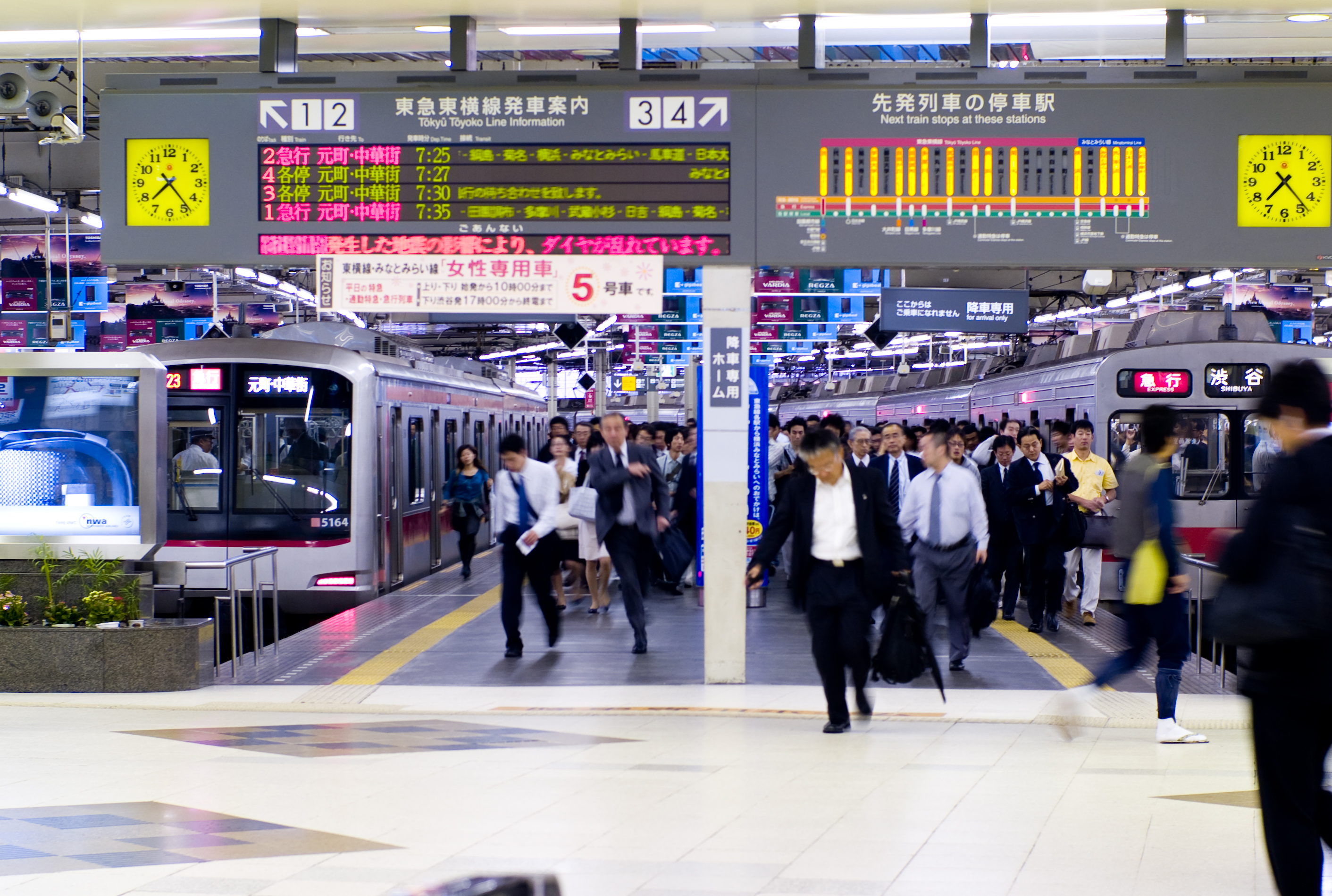 Shipping hundreds of people in huge trains every two or three minutes to and from Shibuya, the Toyoko Line is a commuter artery.Shibuya Toyoko Line